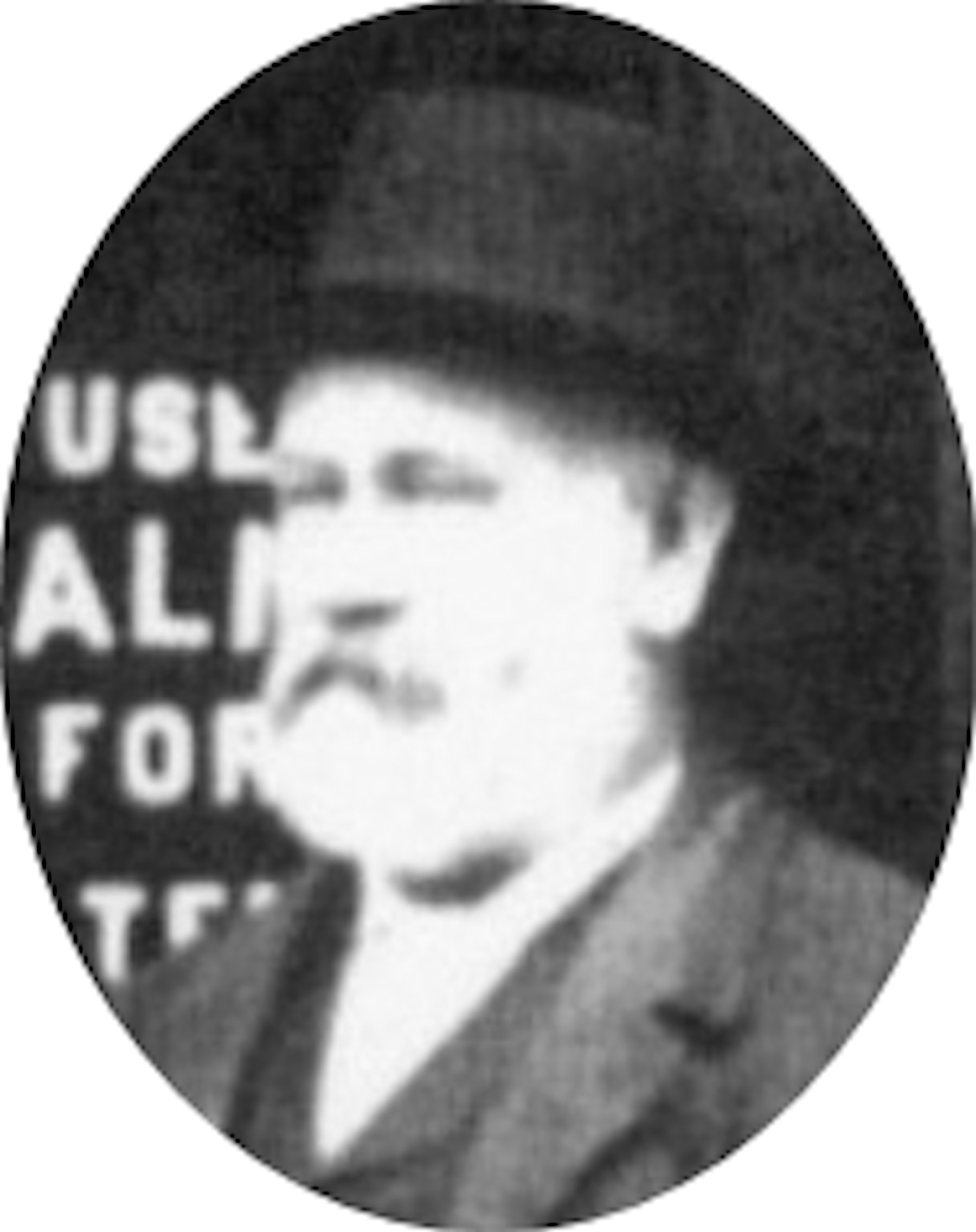 MoH winner Andrew Davidson 1895